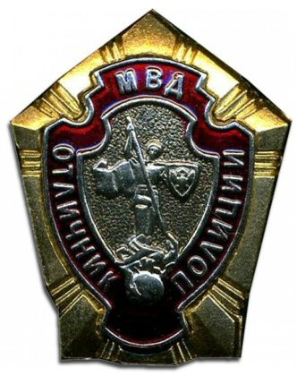 Award of the MVD of Russia. Decoration "Excellent Police".